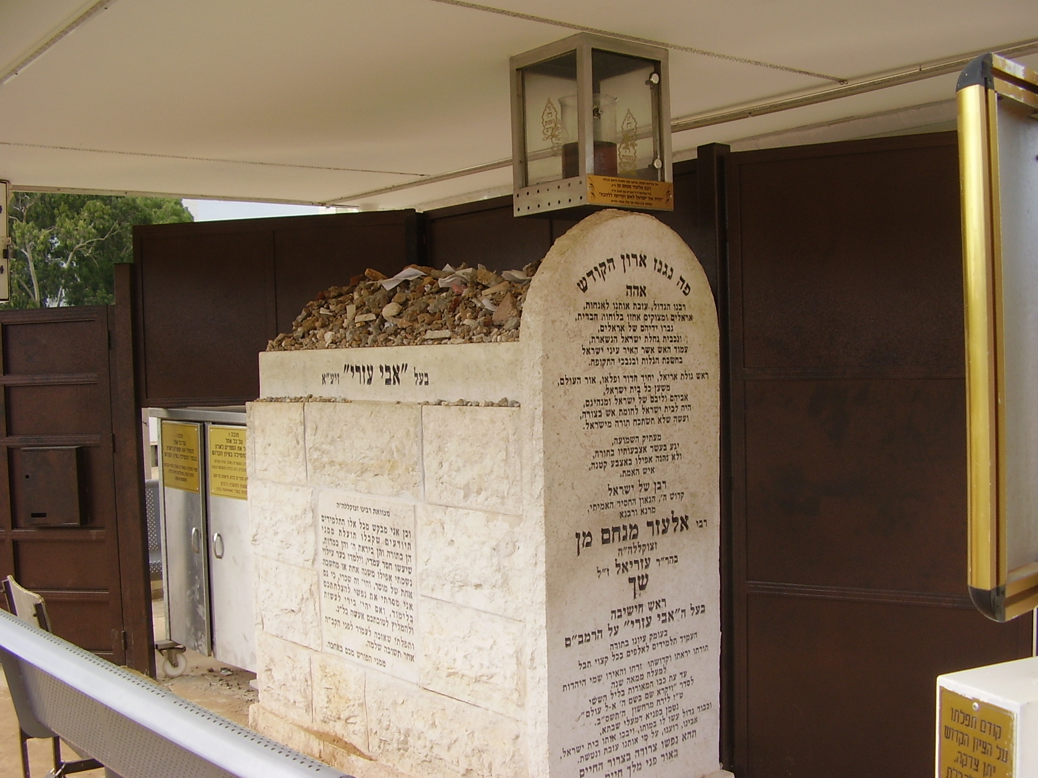 grave of rabbi elazar shach in bnei brak